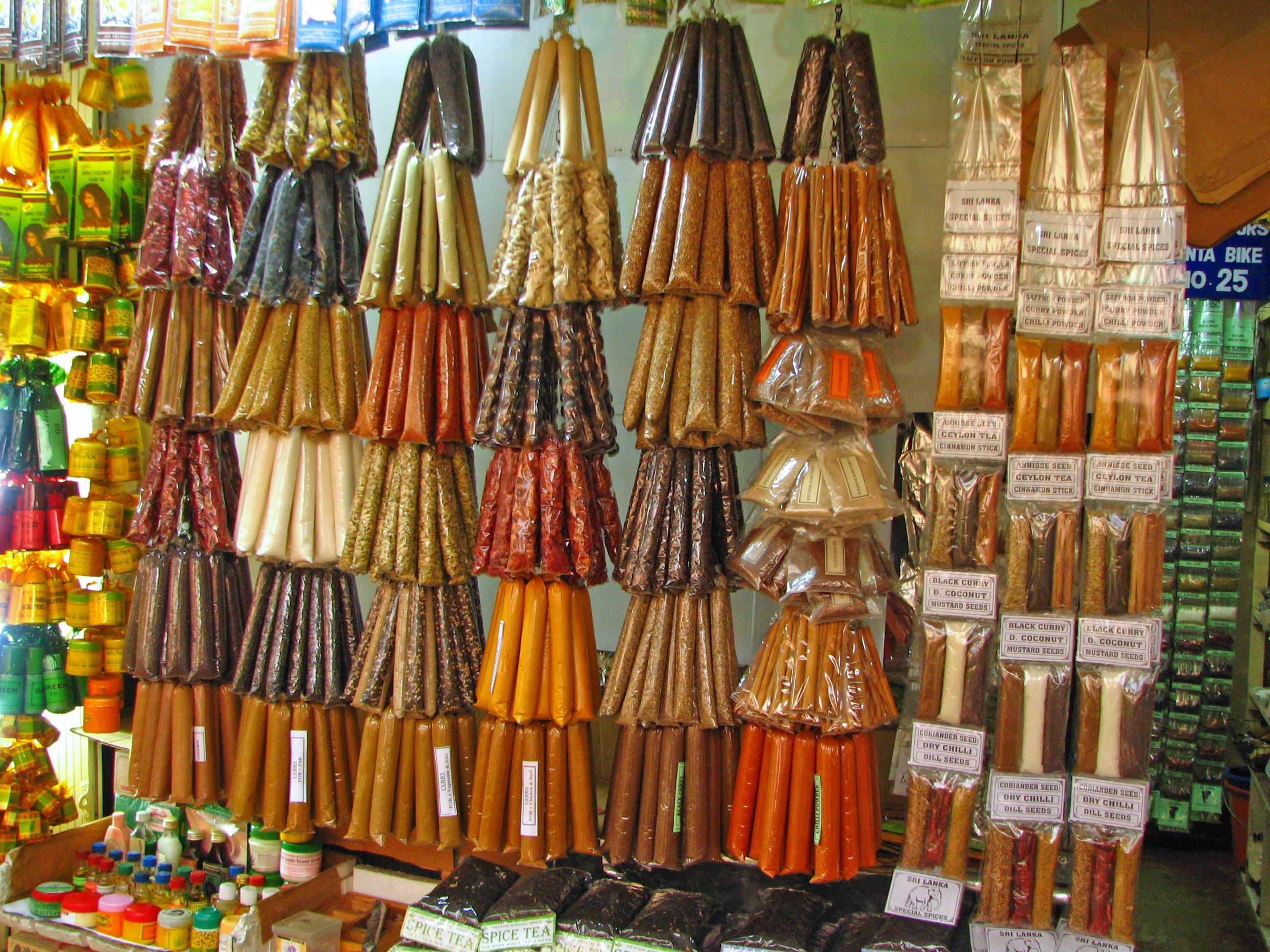 A bright display of spices at the Kandy Central Market. Sri Lanka is known for its fabulous spices in diversity, quantity and quality. Visions of cooking and sumptuous meals danced in my head as I browsed these shops. Cardamon and cinnamon, nutmeg and chili, pepper and turmeric and amazing smelling vanilla. Kandy's Central Market, open only on Fridays was a fortuitous find through a helpful passerby. Stocking the same range of foods, spices, herbal tonics, crafts, textiles and factory-reject designer-brand clothing, it caters to the locals and is government run so there is one price and it is 200-300% cheaper than the tourist shops. There apparently used to be 3 on the island, but 2 were destroyed by the sunami and have not yet been rebuilt. The one in Kandy is the only one remaining. So if you are in Kandy on a Friday, ask for it, ditch your guide's and guesthoues's advice to frequent the pricey shops of their friends and stock up on your gifts here.